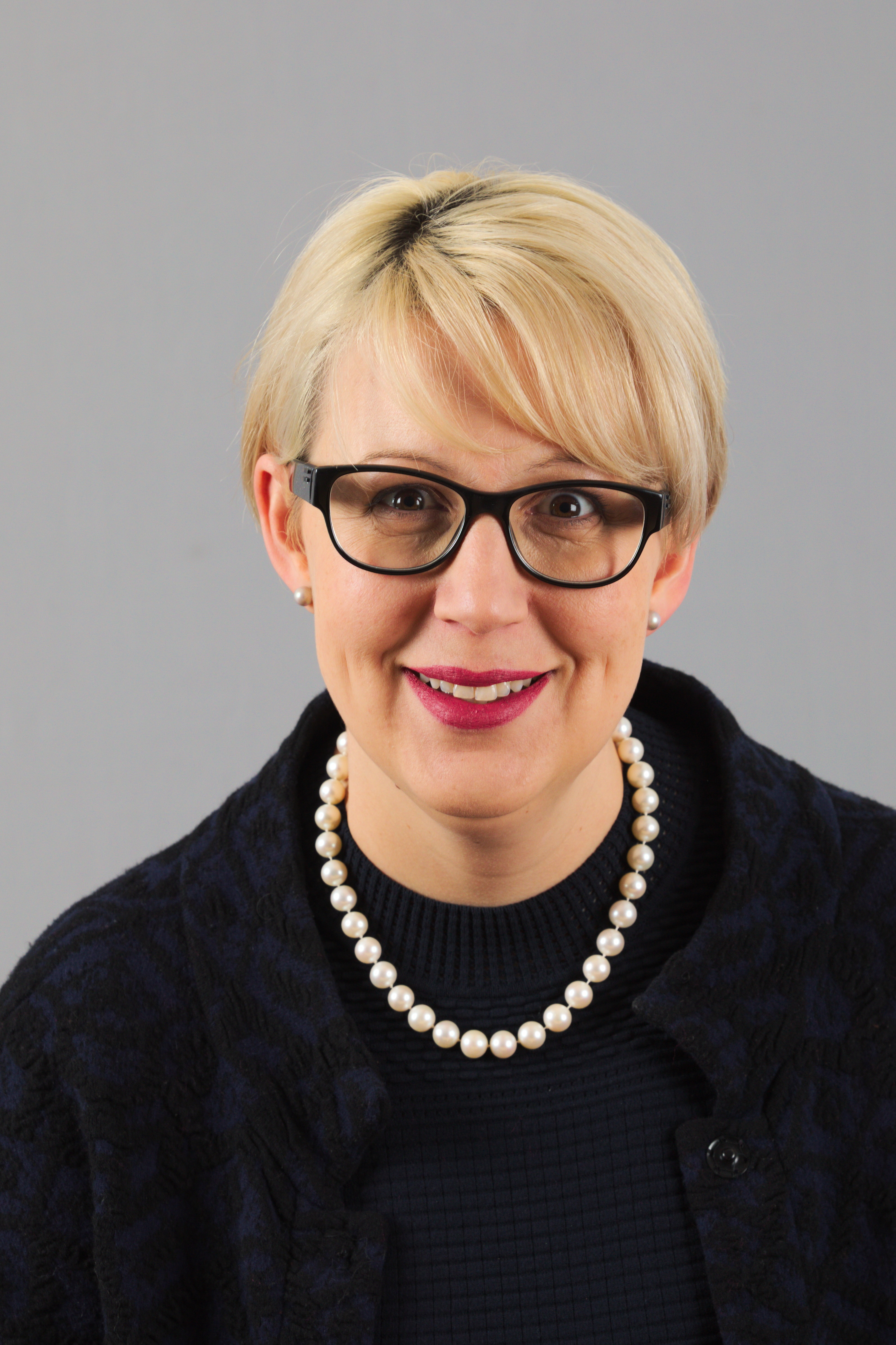 13/12/17, Bregenz/Vorarlberg, Landtagsprojekt Vorarlberg. Picture shows Sabine Scheffknecht, delegate to the State parliament of Vorarlberg since 2014